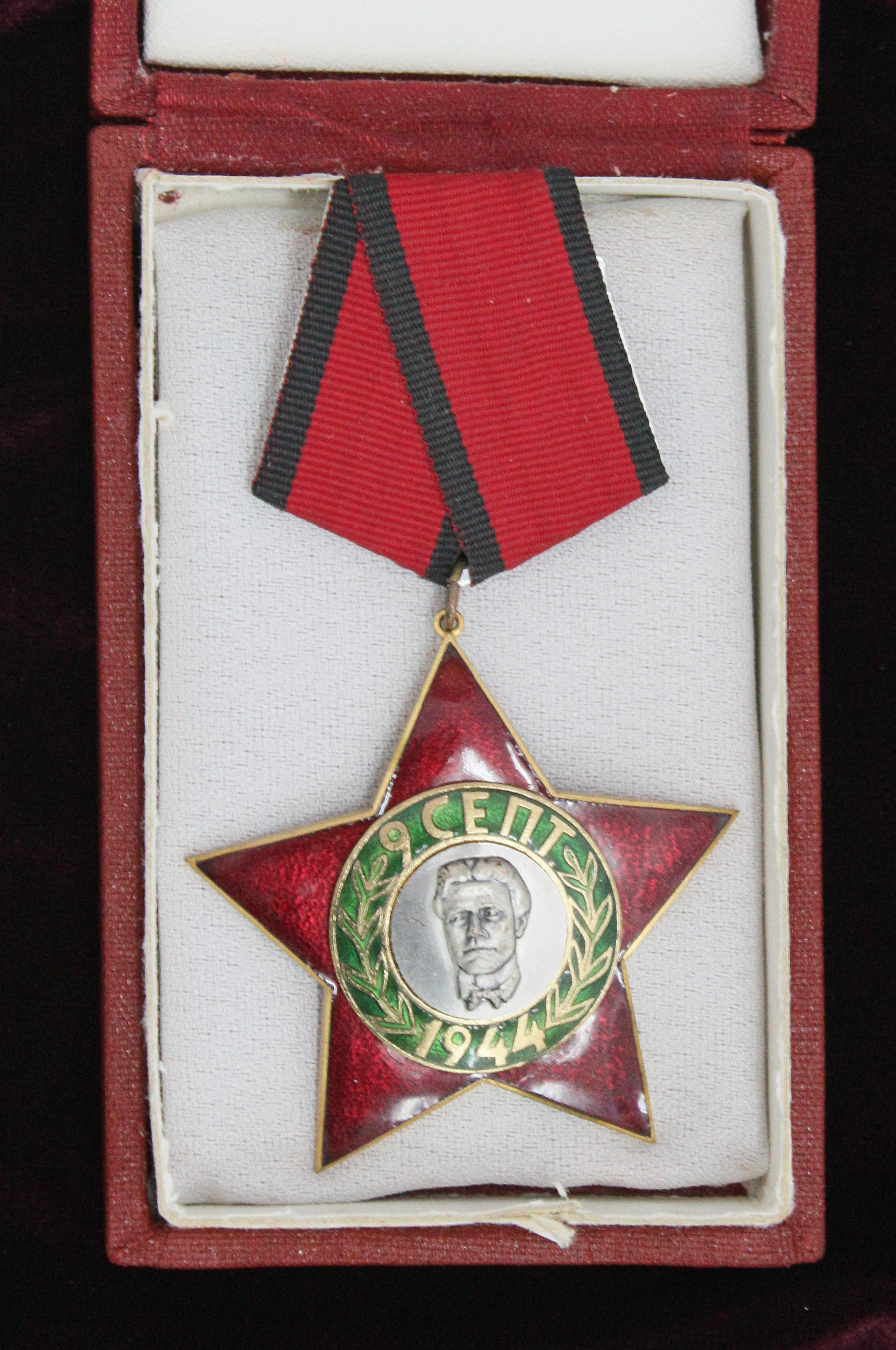 Historic Museum Ivailovgrad, Bulgaria